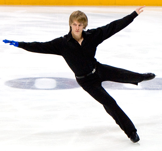 2010 Cup of Russia, free skating.